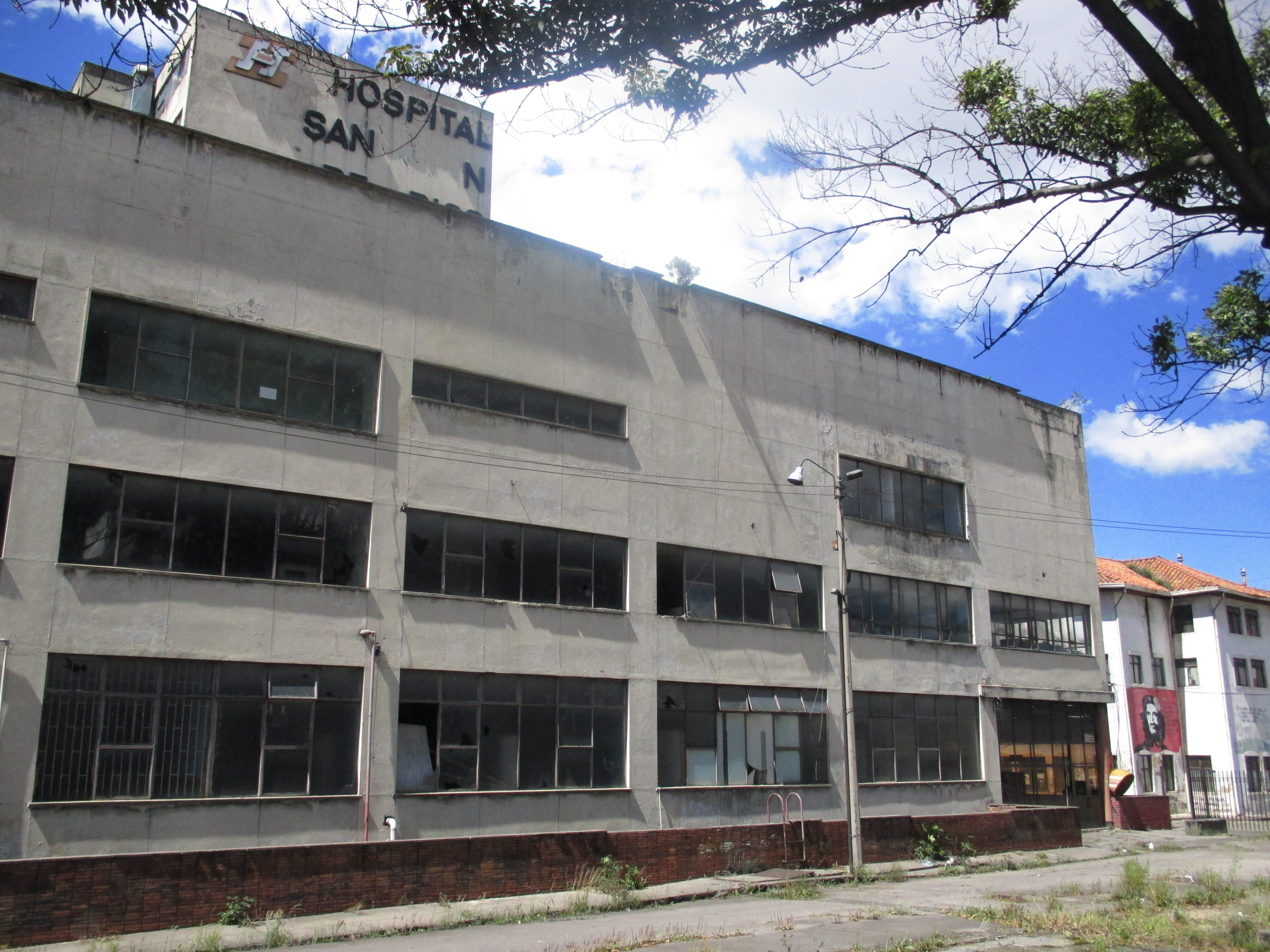 Bogotá